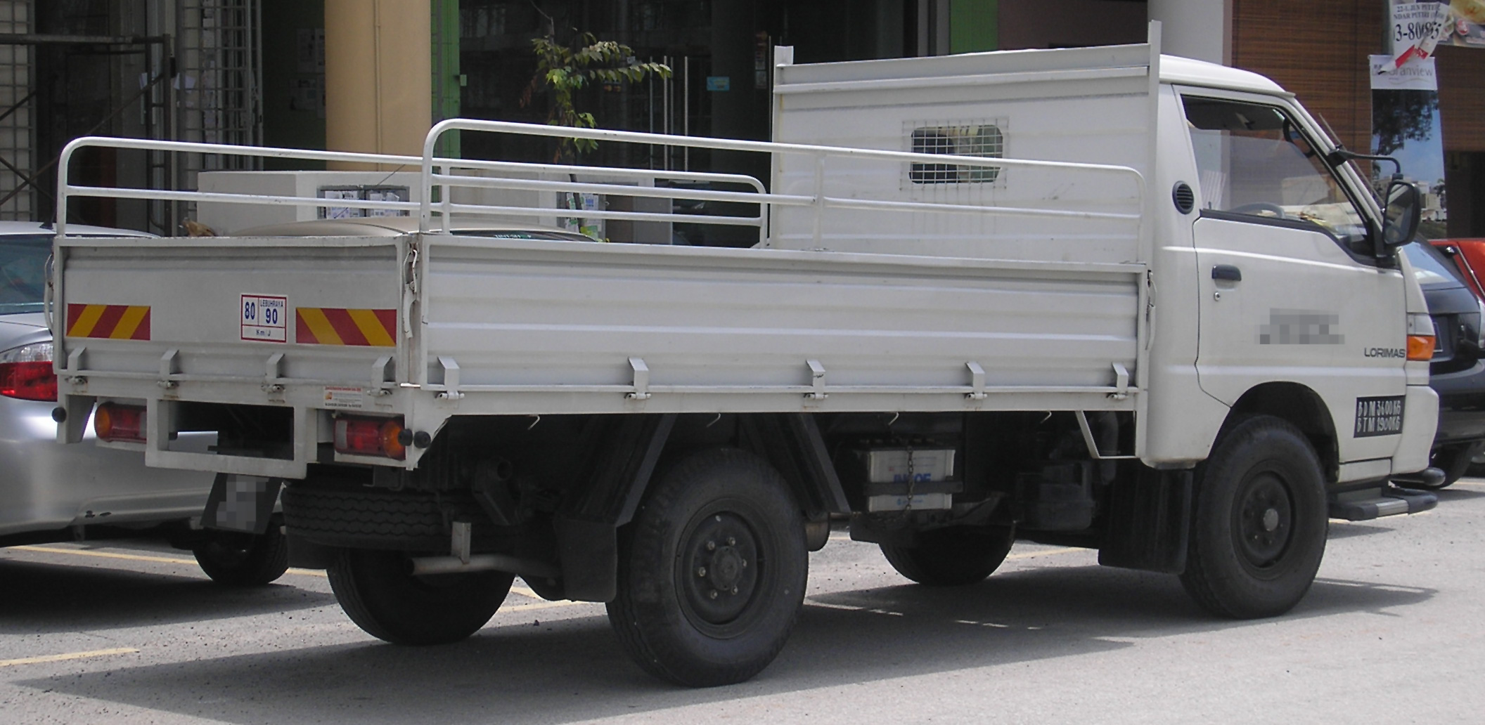 Rear-side shot of a first generation Inokom Lorimas, essentially a rebadged Hyundai Porter, in Serdang, Selangor, Malaysia.